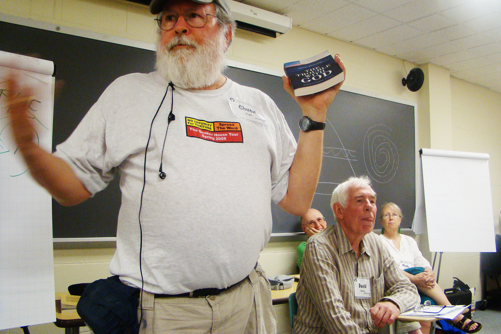 From The Theist-Nontheist Conversation Smackdown of 2008 at Friends General Conference in Johnstown, PA.